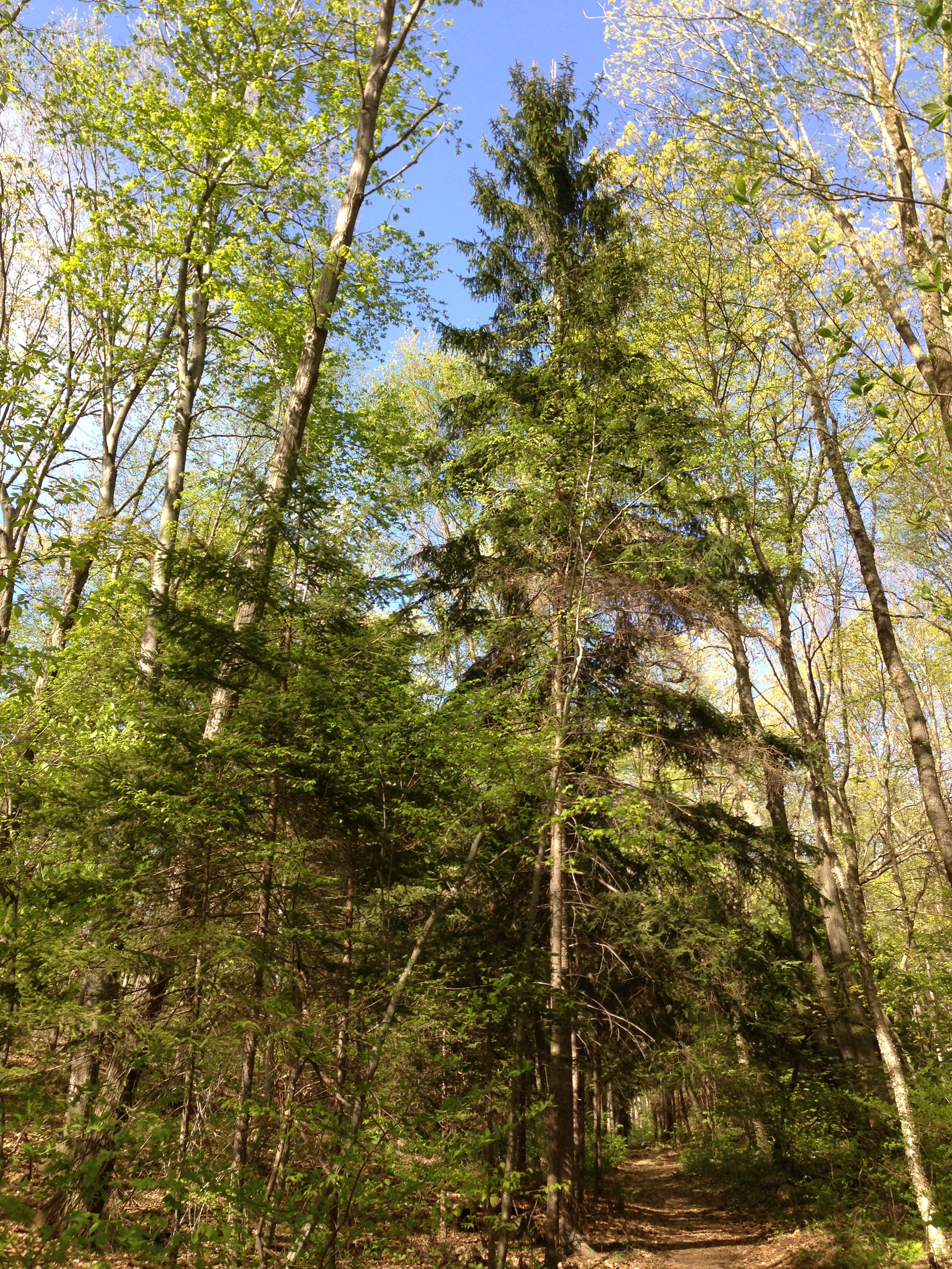 Red Spruce along the Swamp Trail in Jenny Jump State Forest on May 6th 2013